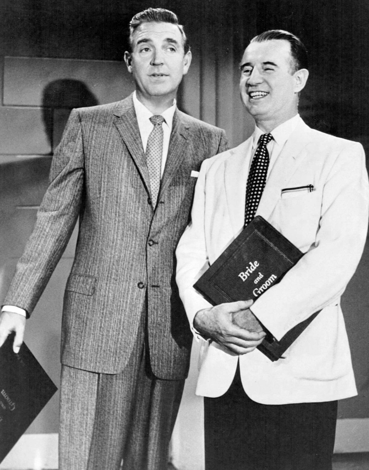 Photo of Robert Paige (left) and Frank Parker from Bride and Groom (TV series).